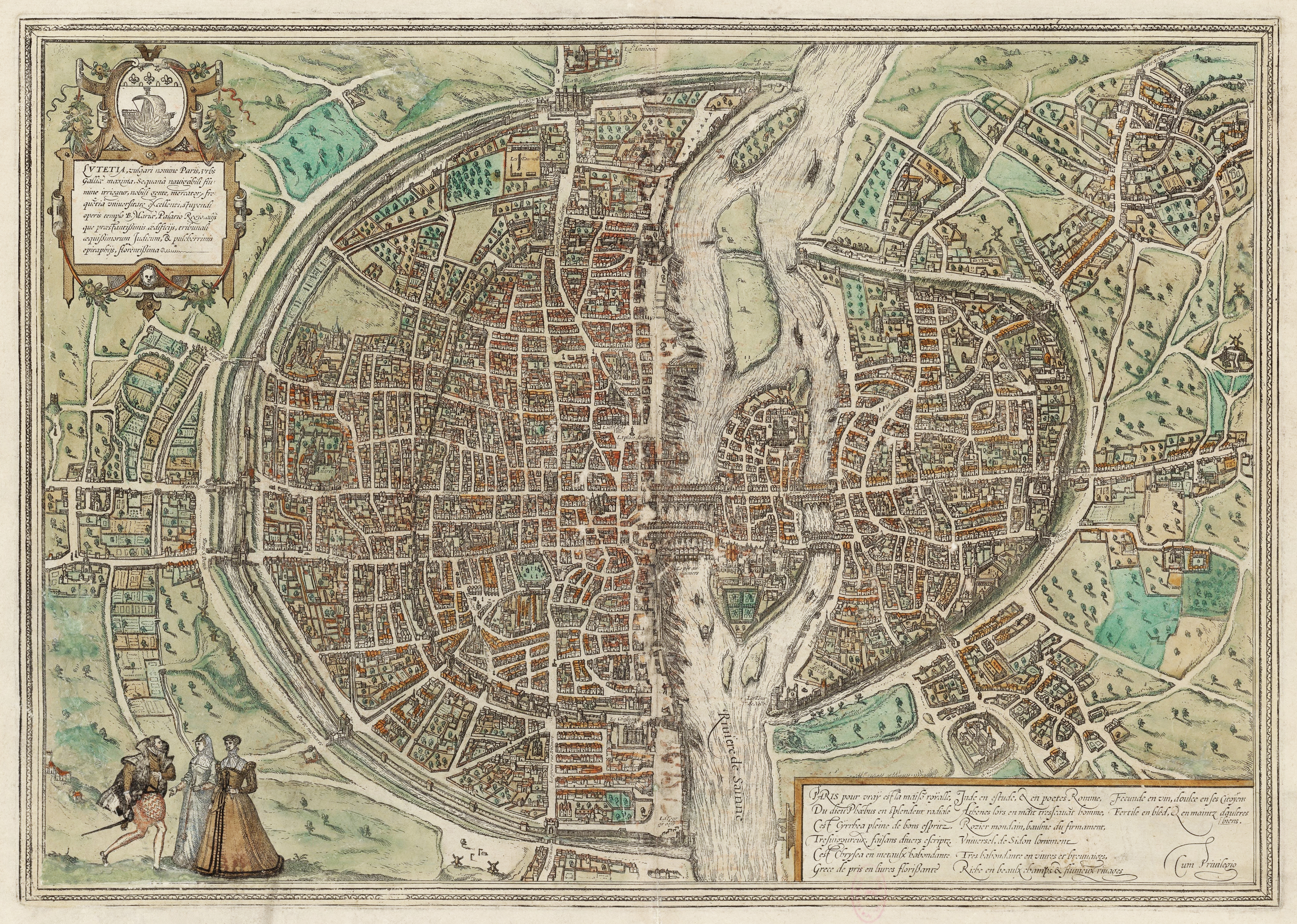 An old map of Paris.